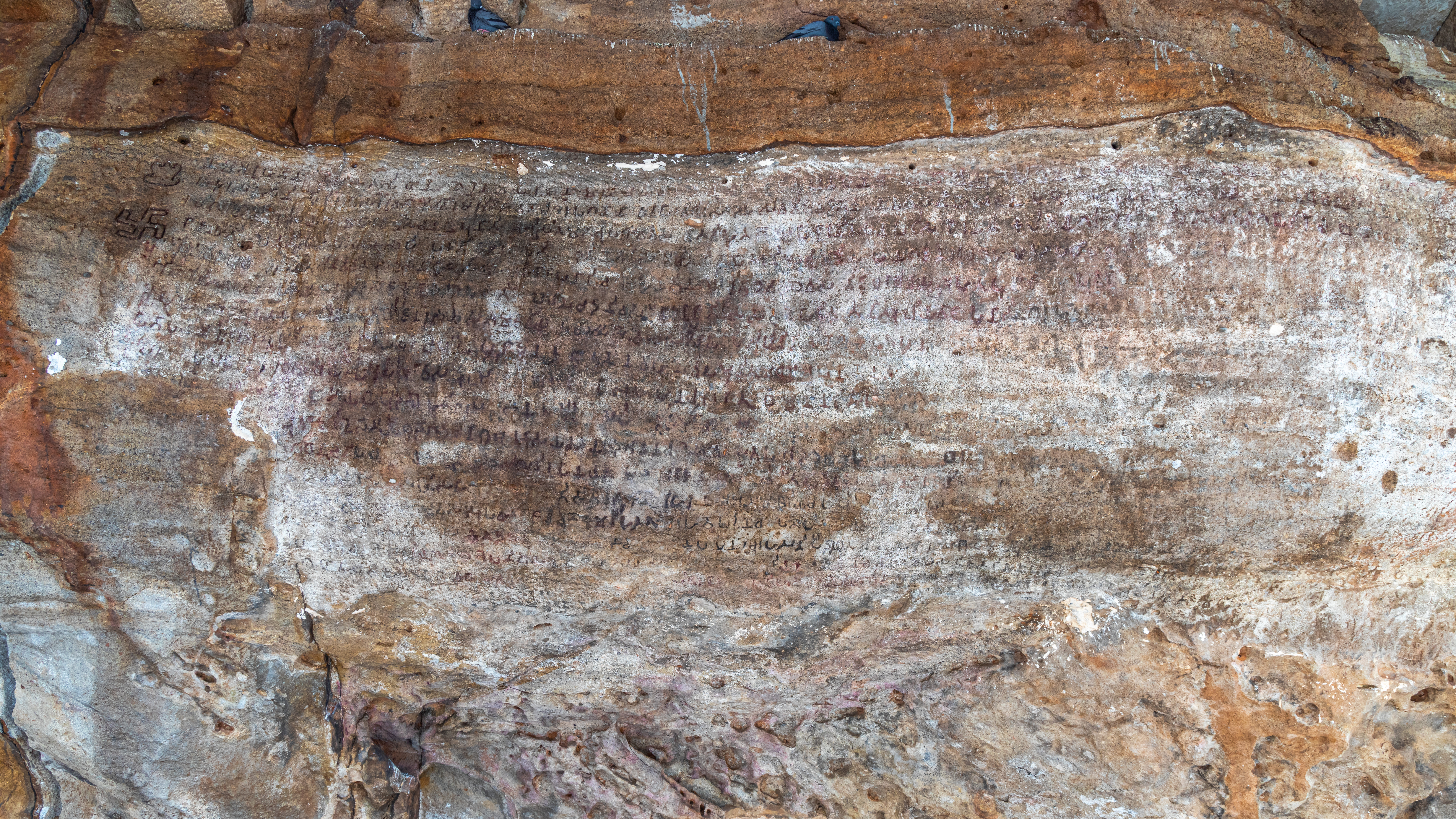 Hathigumpha inscription (2020)